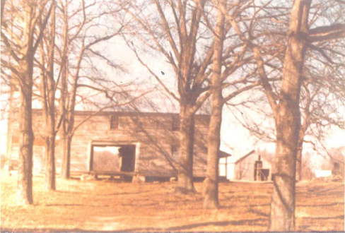 Picture circa: 1960. The house was build by Thomas Holland for his second wife, Sarah Winslow Davidson Woods. It was the center piece of his 2100 acre plantation and considered a frontier mansion. The house was a clapboard clad two story log cabin with a center dogtrot. The dogtrot had wainscoting and chair rails on its walls. The dogtrot was used extensively by the family in the summer months and provided a means to keep the family cool. The house had two interior staircases. The young men of the family lived on one side of the home and the young women and parents lived on the other side. The slave quarters still stood in the 1960s. They were located to the front and west of the home. The cemetery for the enslaved persons was located to the home's northwest not far from the house. The house was destroyed by arson in 1997 after having achieved some notoriety. It was used for the haunted house scenes in Walt Disney Pictures 1995 "Tom and Huck" starring Jonathan Taylor Thomas. The allee of oak trees, which was on the path to the home's south facing facade, was destroyed by a tornado on April 27, 2011. Only a couple of the trees remain.